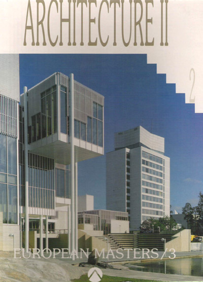 EUROPEAN MASTERS, Annual of Architecture (Atrium), 1991